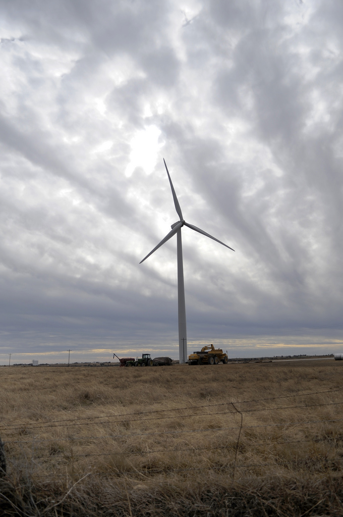 Wolf Ridge Wind Farm in Muenster